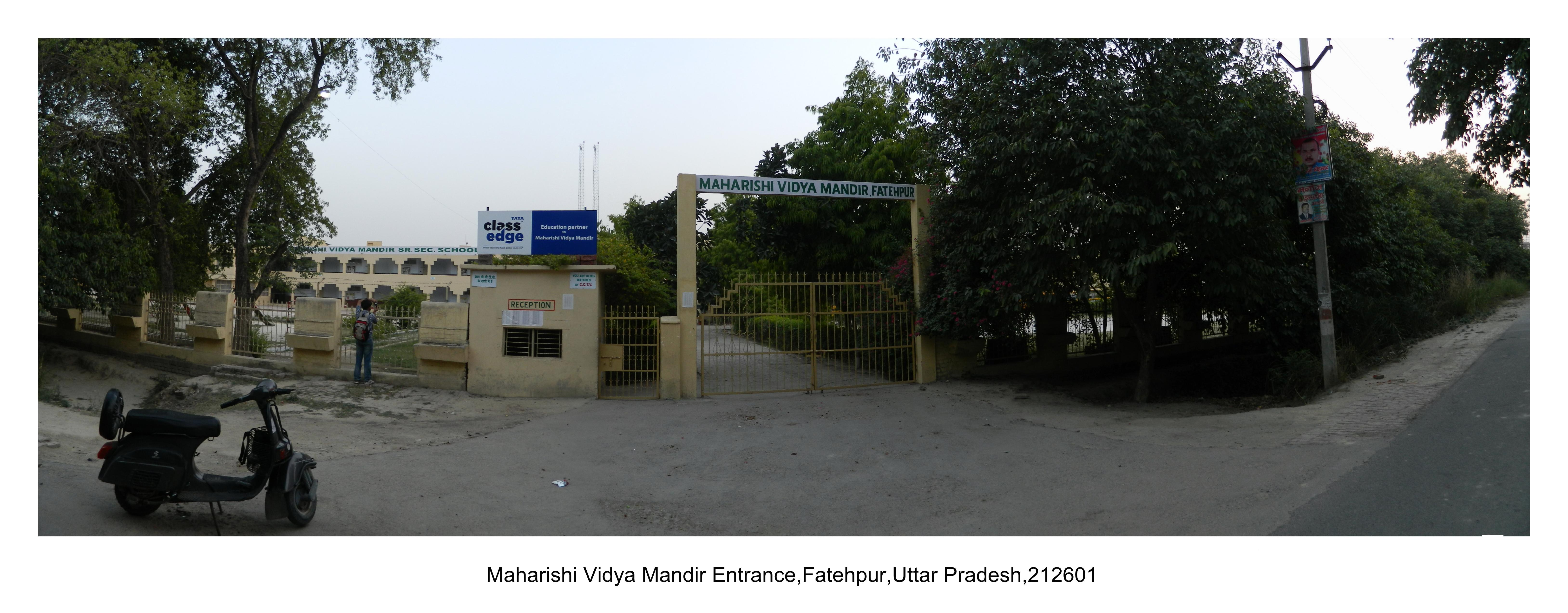 Front view of Maharishi Vidya Mandir,Fatehpur,Uttar Pradesh,212601